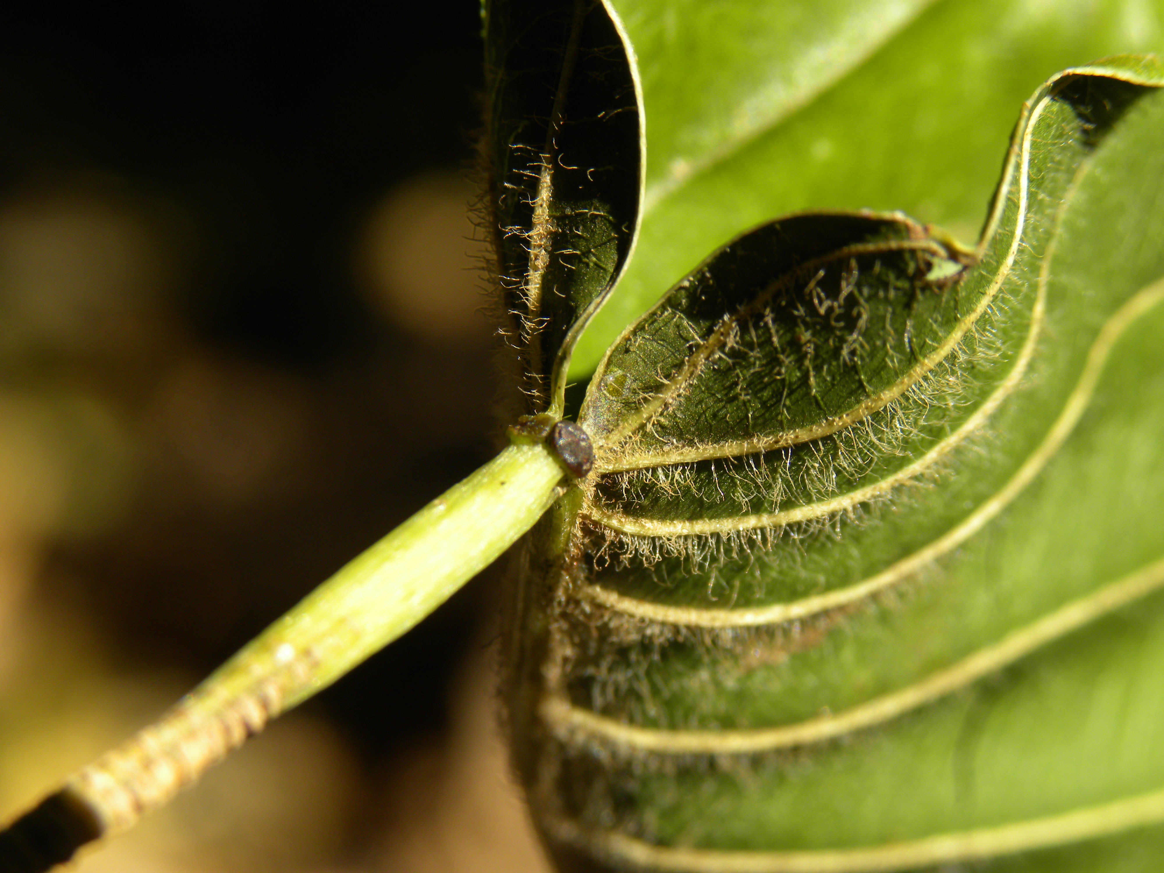 Leaf of Hura crepitans showing distinctive apical glands on the petiole and indument on the lamina. Photo taken in Santa Rosa National Park, Guanacaste, Costa Rica.